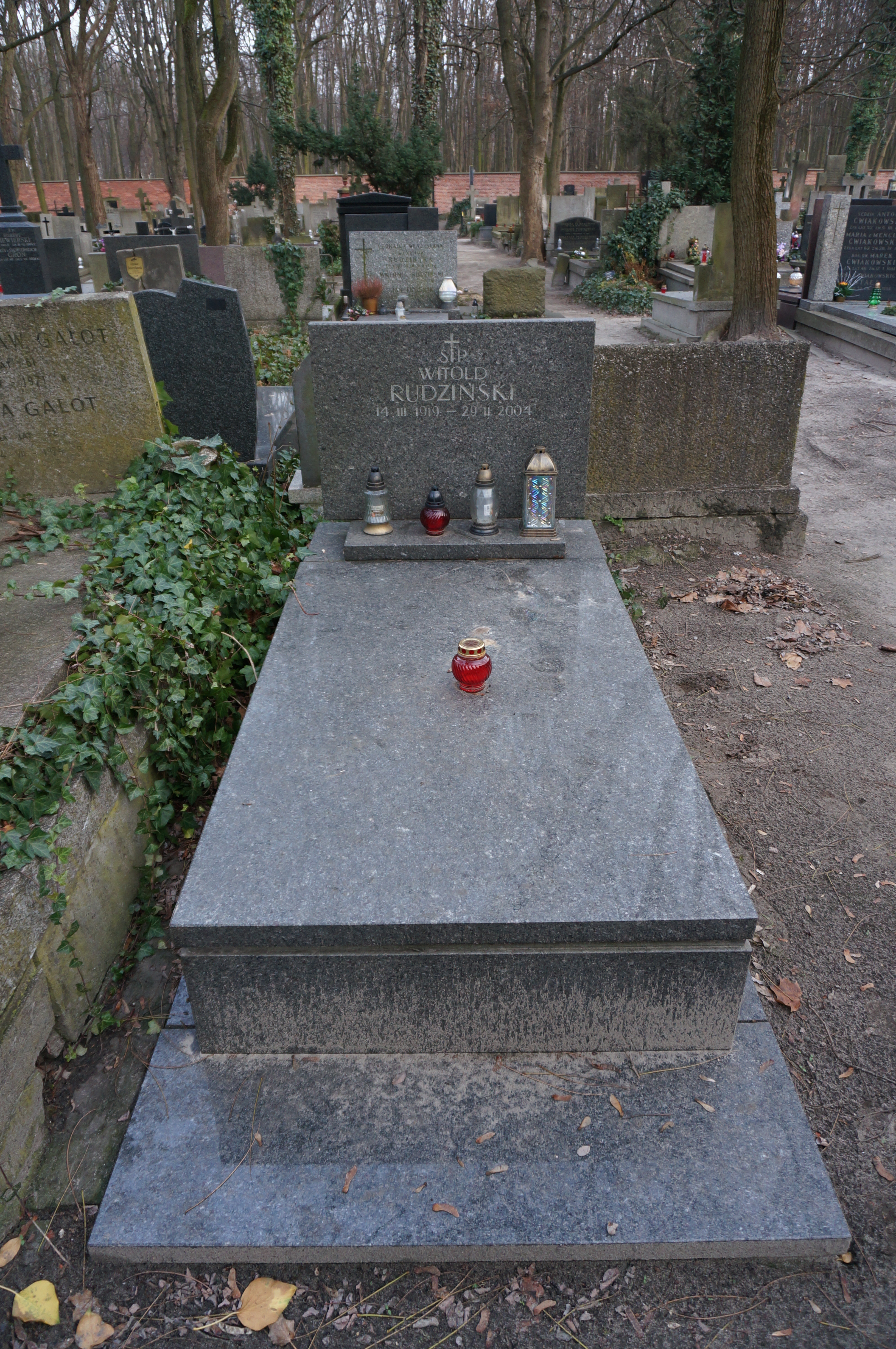 The grave of Witold Rudziński at the Powązki Cemetery (section 334, row 5, grave 28)